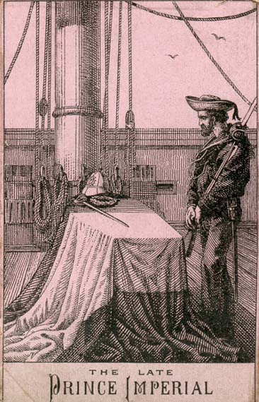 Transport of Napoleon's body to England.